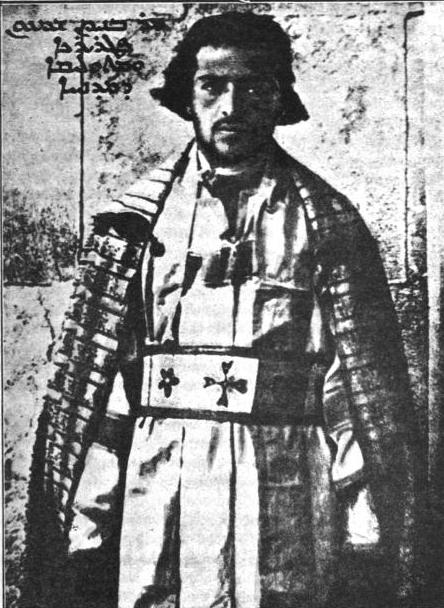 Mar Shimun XIX (XXI) Benyamin (1887—1918), was a Catholicos Patriarch of the Assyrian Church of the East.